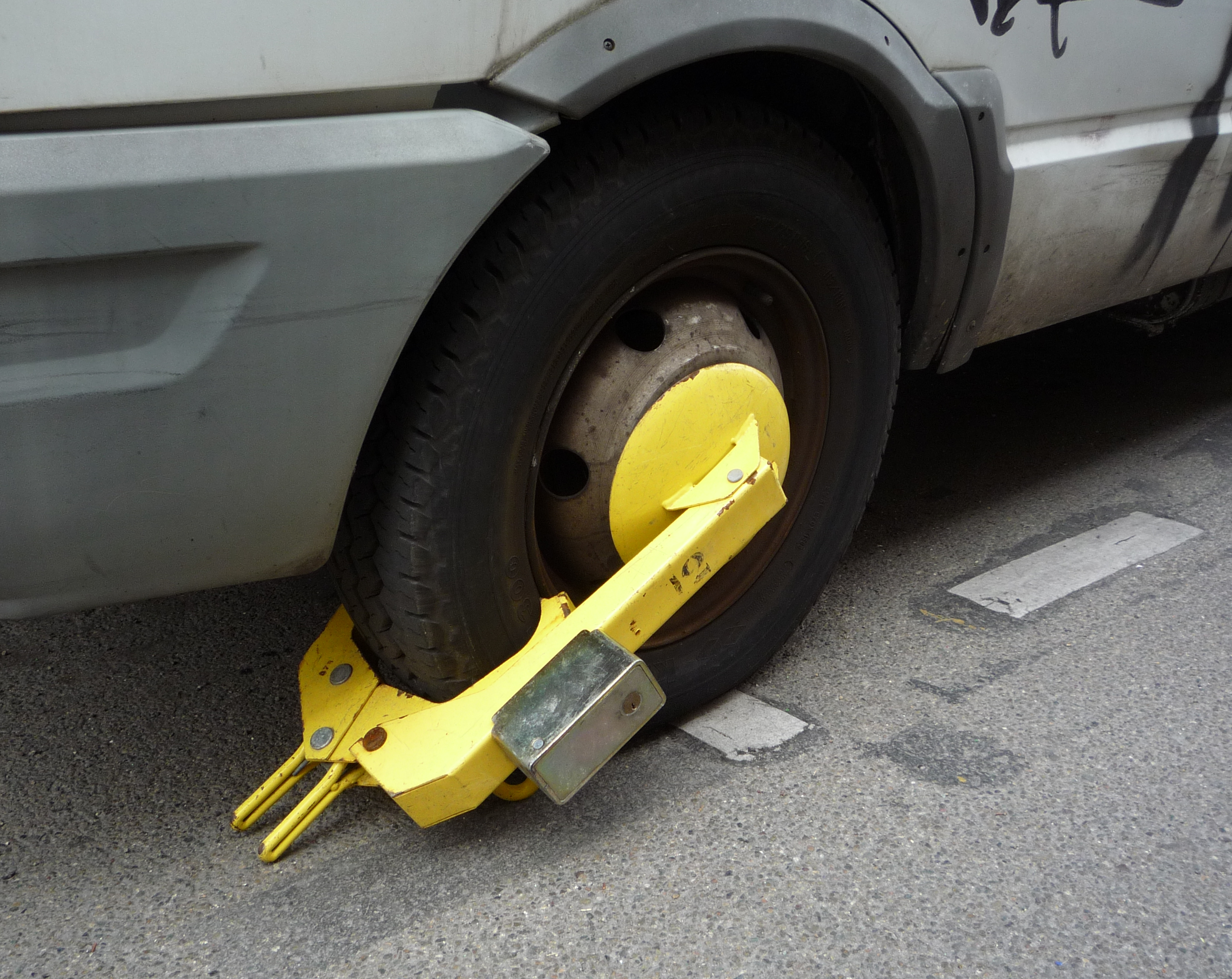 A wheel clamp attached to a van illegally parked in Paris.